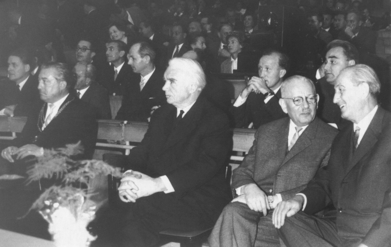 From right Kukán Ferenc, Julesz Miklós, Ábrahám Ambrus are at the Univ. of Szeged